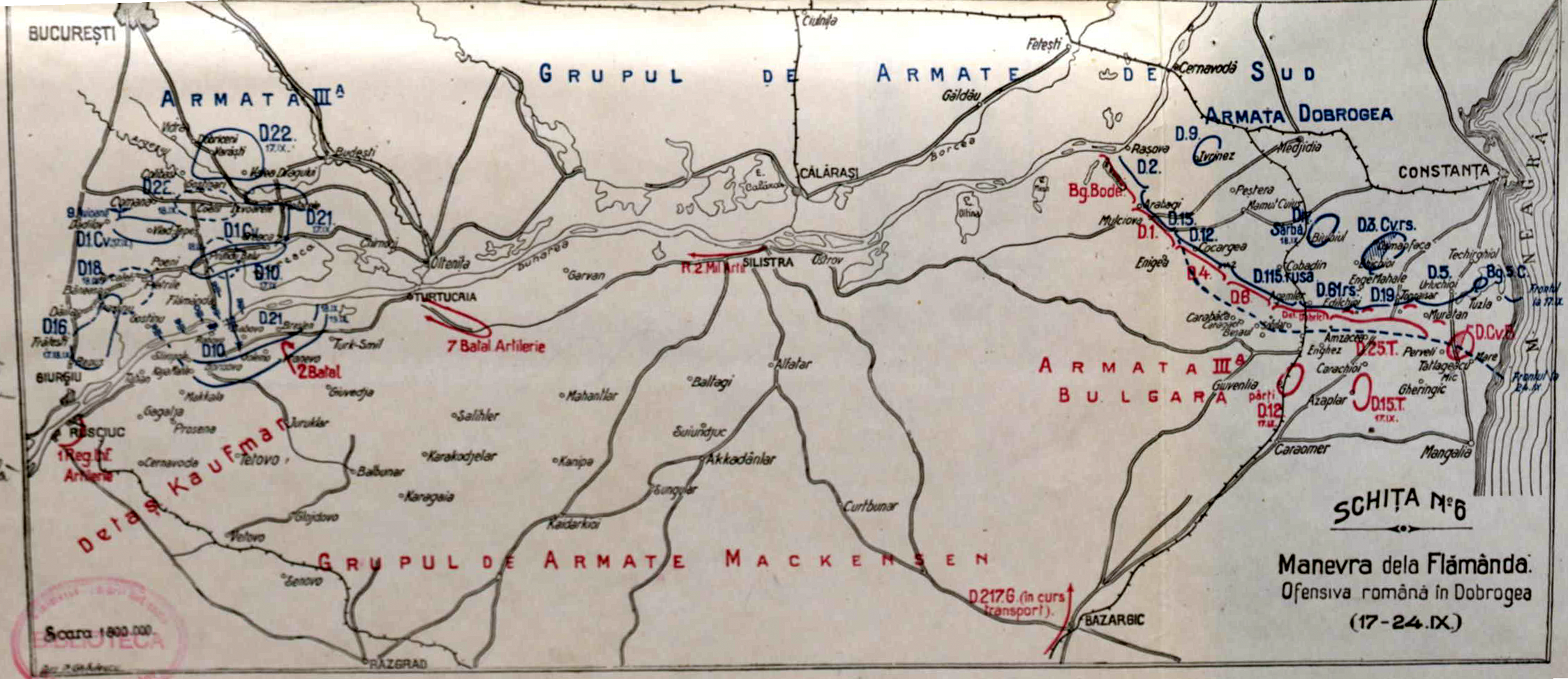 Maps with the military action during the Flamanda Operation 1916